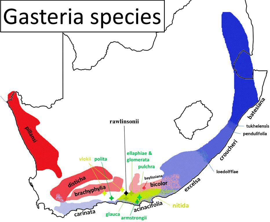 Gasteria species - Distribution map of the various gasteria species and subspecies in Namibia South Africa and Swaziland